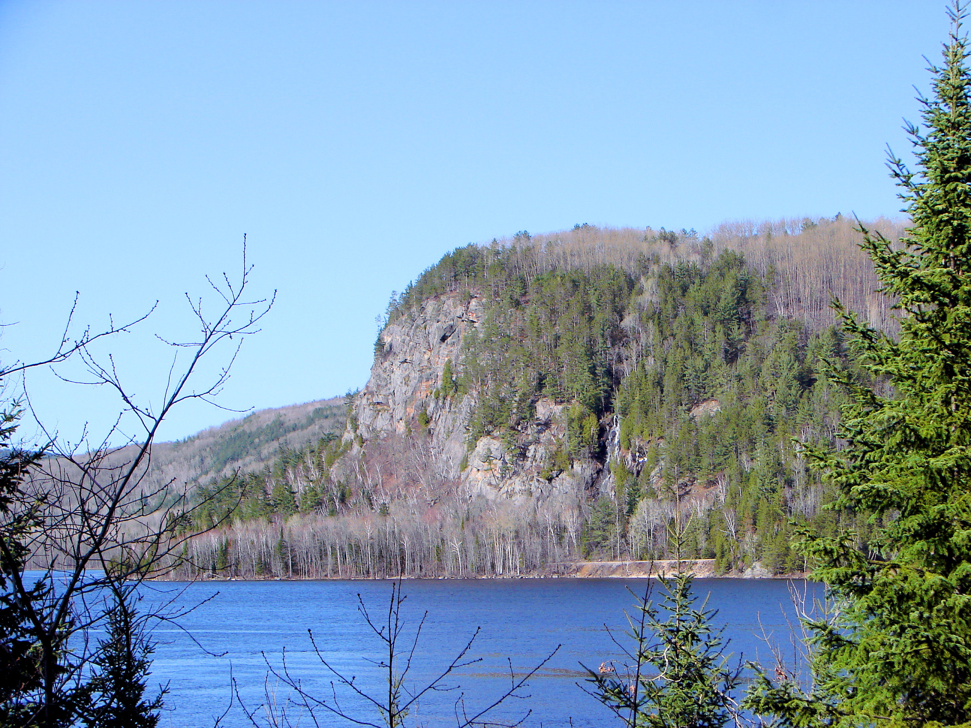 Ottawa River at Lacs-du-Témiscamingue, Quebec (near Mattawa, Ontario), Canada